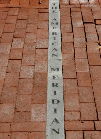 The American Meridian Line (looking south) This line is built into the red brick sidewalk on the southeast corner of H and 24th Streets NW on the western edge of the campus of George Washington University in the Foggy Bottom neighborhood of Washington, DC. It is on the Washington Meridian through the small dome of the Old Naval Observatory about four blocks due south, southwest of the corner of E and 23rd Streets. This meridian was officially established by an act of Congress on September 28, 1850. A plaque directly above this line is at Webshots, GWU American Meridian Line (2), while both are shown in another Webshots photo, GWU American Meridian Line.